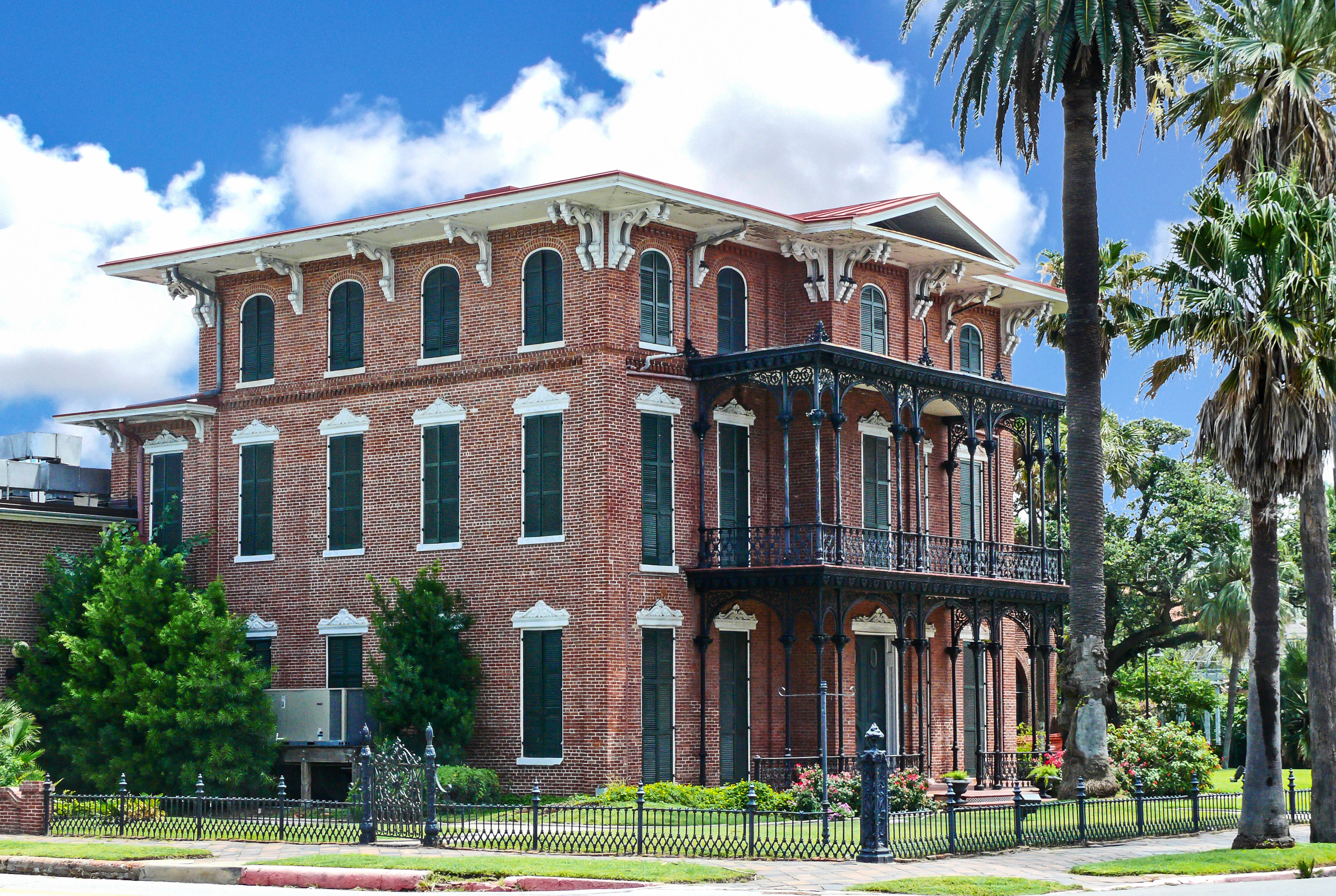 Ashton Villa — landmark villa and historic house museum in Galveston, southeast Texas. An 1859 Italianate style residence, that served as the local Confederate and then Federal military headquarters for Texas during the Civil War. Mediterranean style architecture. European materials. Ashton Villa Mansion is a, 3 story, palace-like structure, built by a proud, wealthy hardware businessman, James Brown, who believed in showing his wealth. This royal residence thought to be the first all brick home built in Texas, was fit for royalty and took 4 years to build from 1861 to 1865. The showplace of this glorious Italianate Villa was and is the ornate, formal living room, called The Gold Room, located near an alcove, within the spacious every day living room. There is a grand, center stairway that connects the floors, with the customary landings on each floor. Ashton Villa is sometimes called the "most haunted building in America" mostly due to it's most notorious resident Miss Bettie Brown, James Brown's daughter. Bettie Brown grew up in an atmosphere of abundance of wealth, material goods, and extreme privilege. She was refereed to by many during her time as the "Texas Princess." She spent most of her time collecting beautifully expensive objects and hosting grand parties. The ghost of Bettie Brown is reputed to have been seen standing in the Gold Room and heard playing the piano like at one of her famous music recitals. A chest of drawers purchased in the Middle East standing in Bettie Brown's day room reportedly locks and unlocks. spontaneously though the key has been missing for years. Ceiling fans have been known to turn themselves on. One bed refuses to stay made. No matter how many times a day the sheets are straightened, they end up rumpled anyway. Bettie's ghost has been seen at the top of the grand staircase.